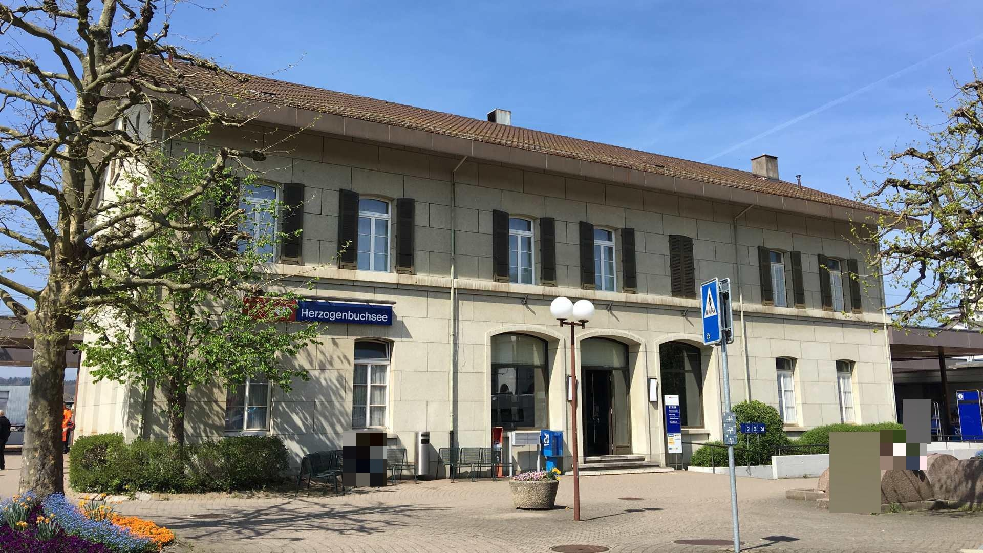 Herzogenbuchsee railway station in Herzogenbuchsee, Switzerland.